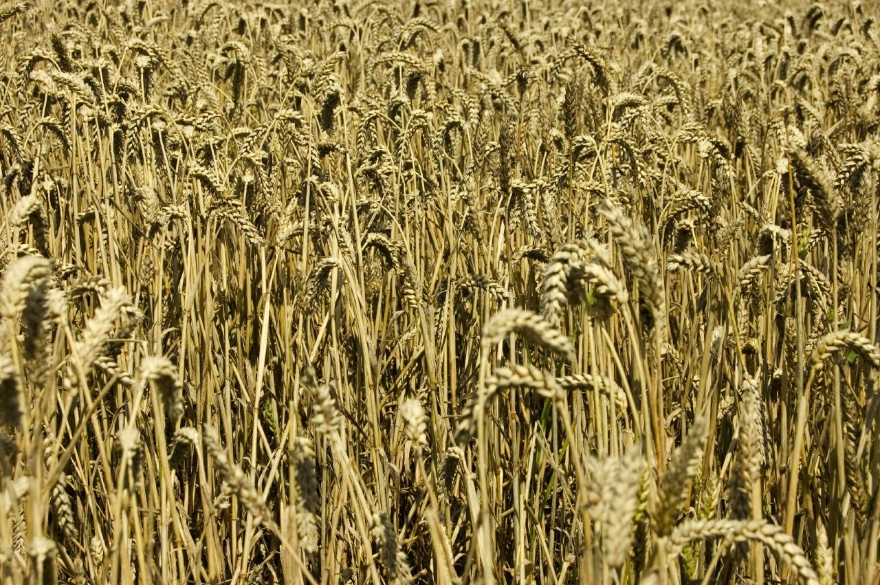 Field of Wheat